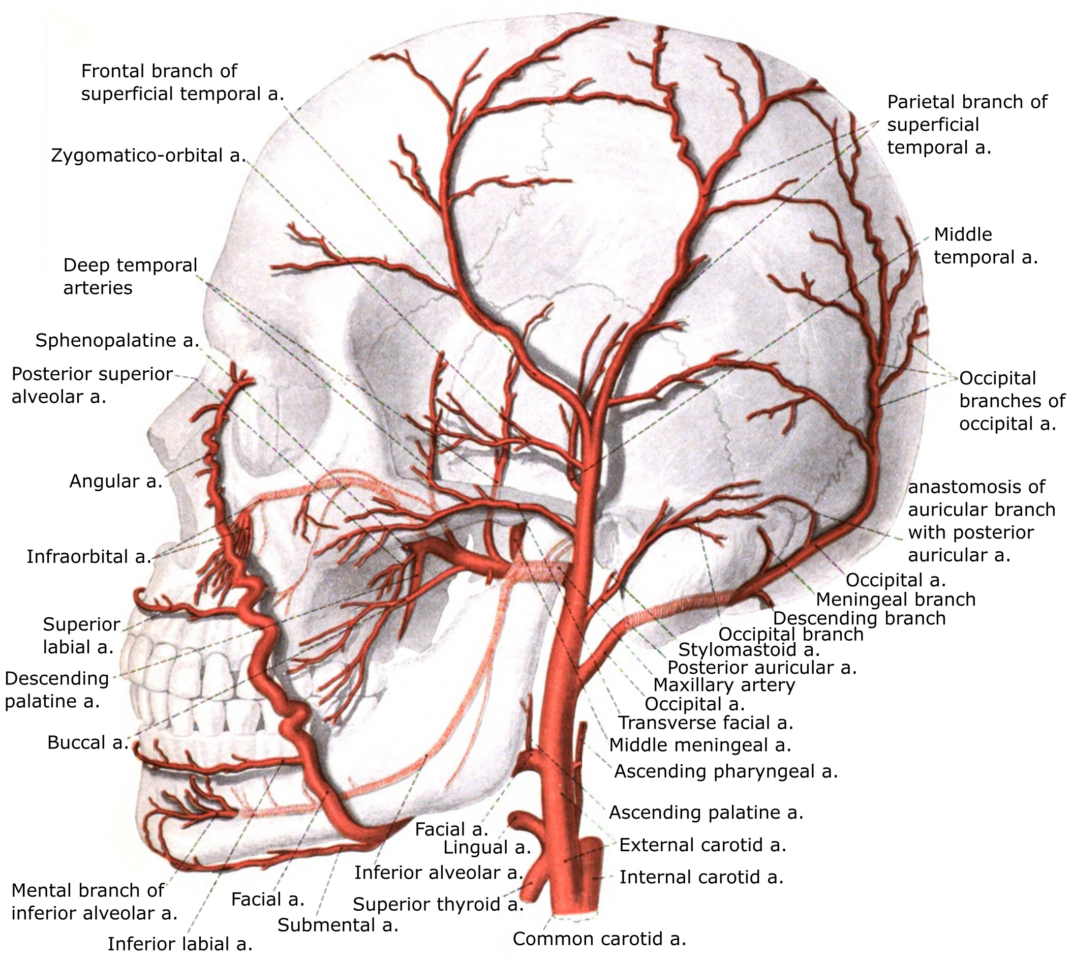 The external carotid artery with branches. Image from Sobotta (1909) with updated nomenclature (2017).